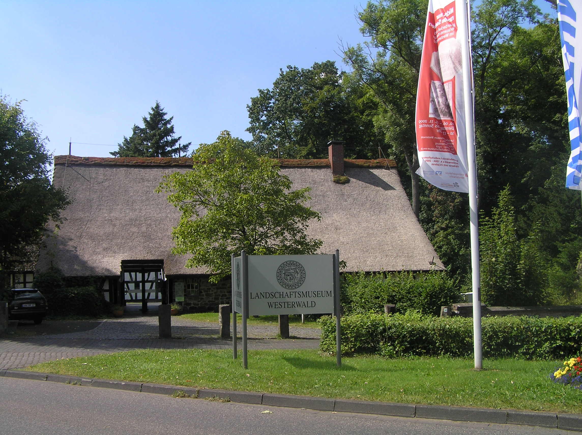 Entrance building of Landschaftsmuseum Westerwald in Hachenburg, Germany